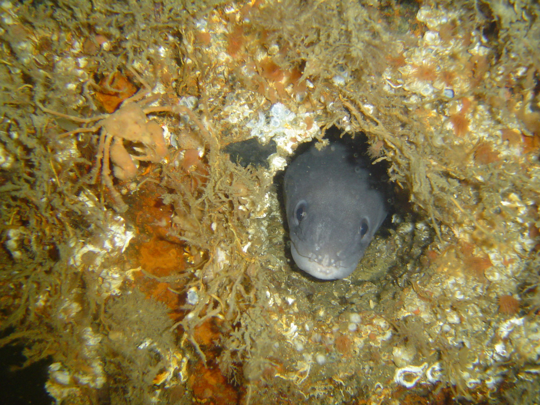 ostéichthyens, Conger conger.